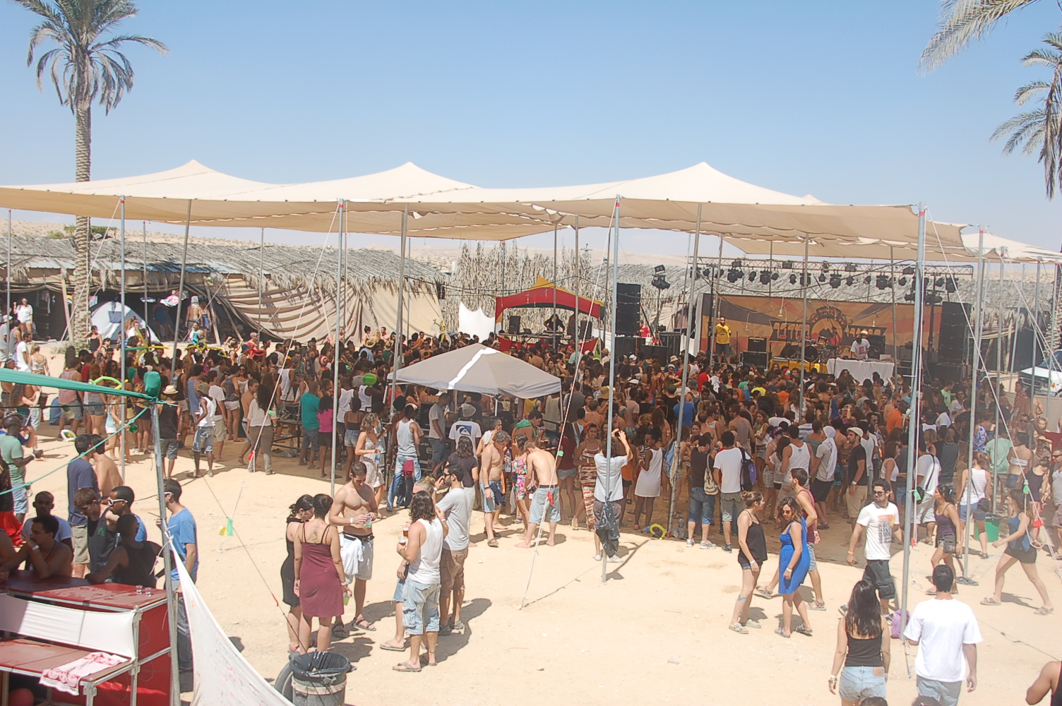 Reggae In The Desert 5#